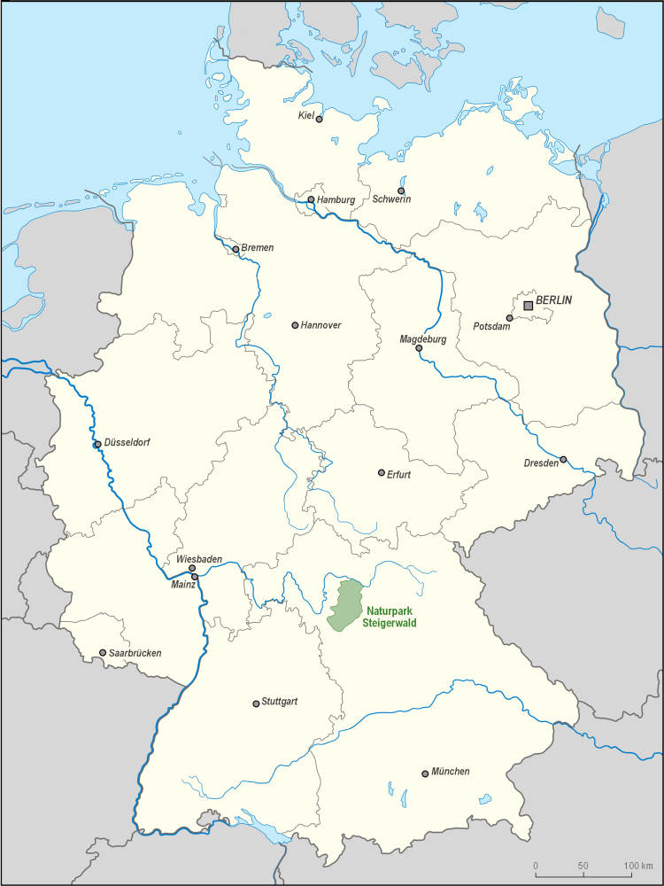 (nearly) blank map of Naturpark Steigerwald in Germany, based on the map file:Karte_Naturpark_Steigerwald.png labelled in German